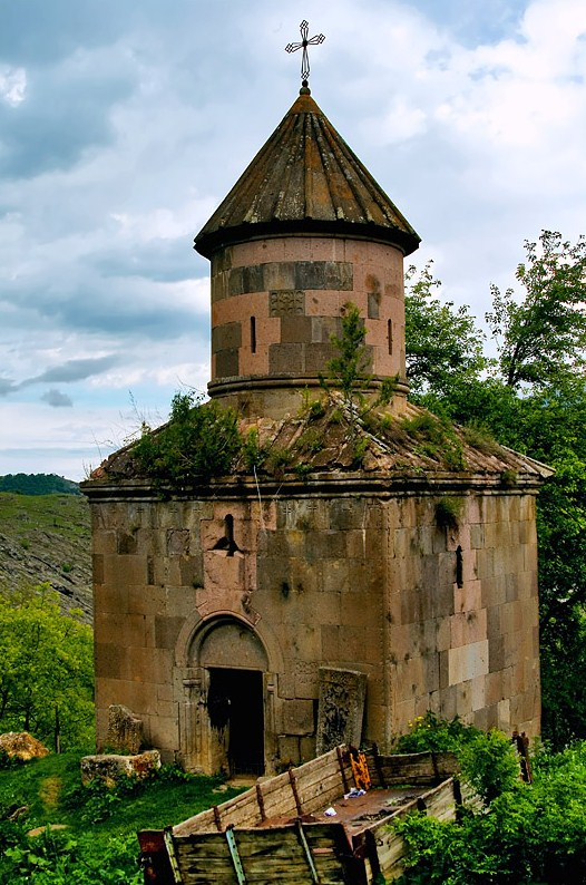 Часовня, Гошаванк, Армения.